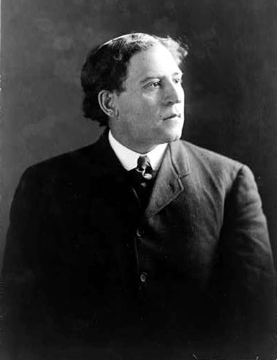 Amos Alonzo Stagg circa 1906